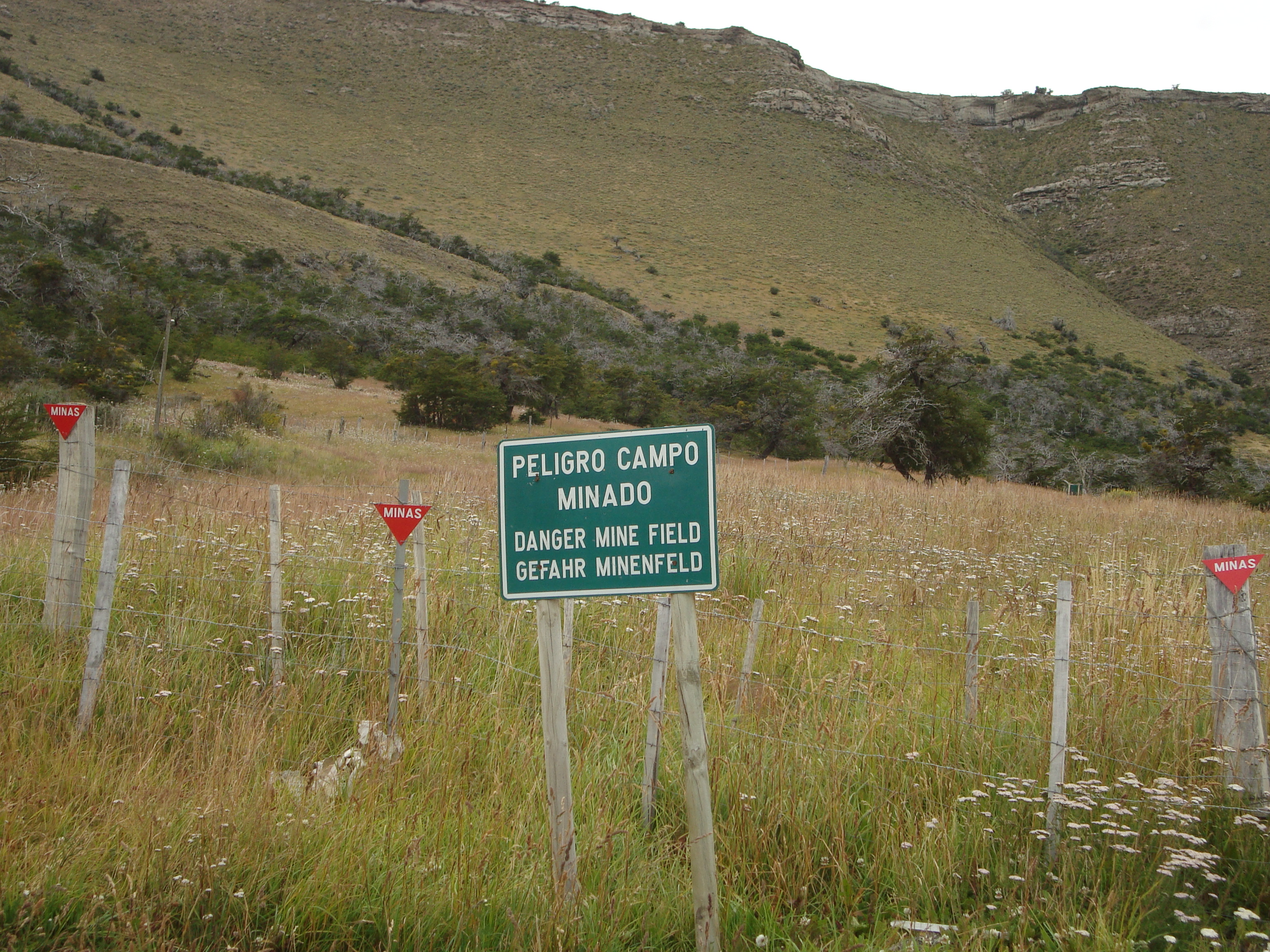 No kidding. There are active mine fields along the highway in southern Chile. Chileans *really* don't like Argentinians...